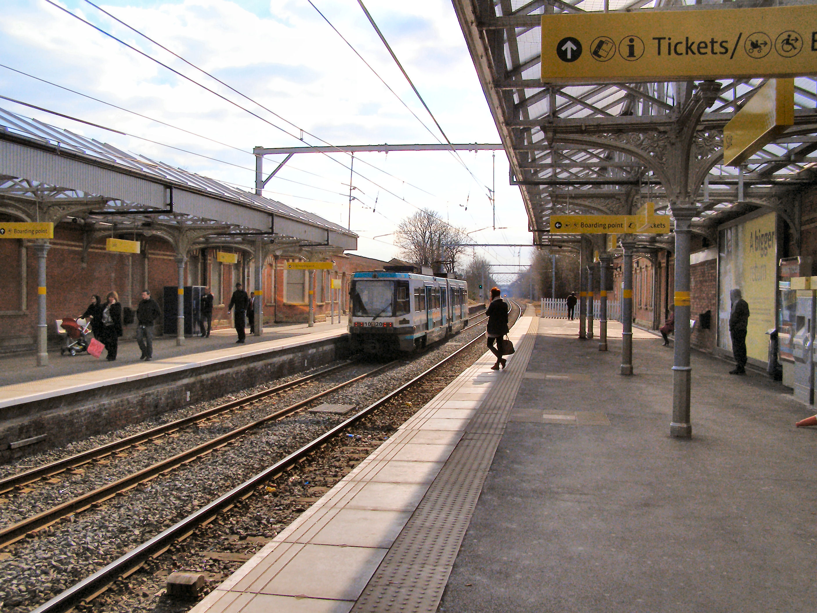 Sale Station Facing south, towards Altrincham.